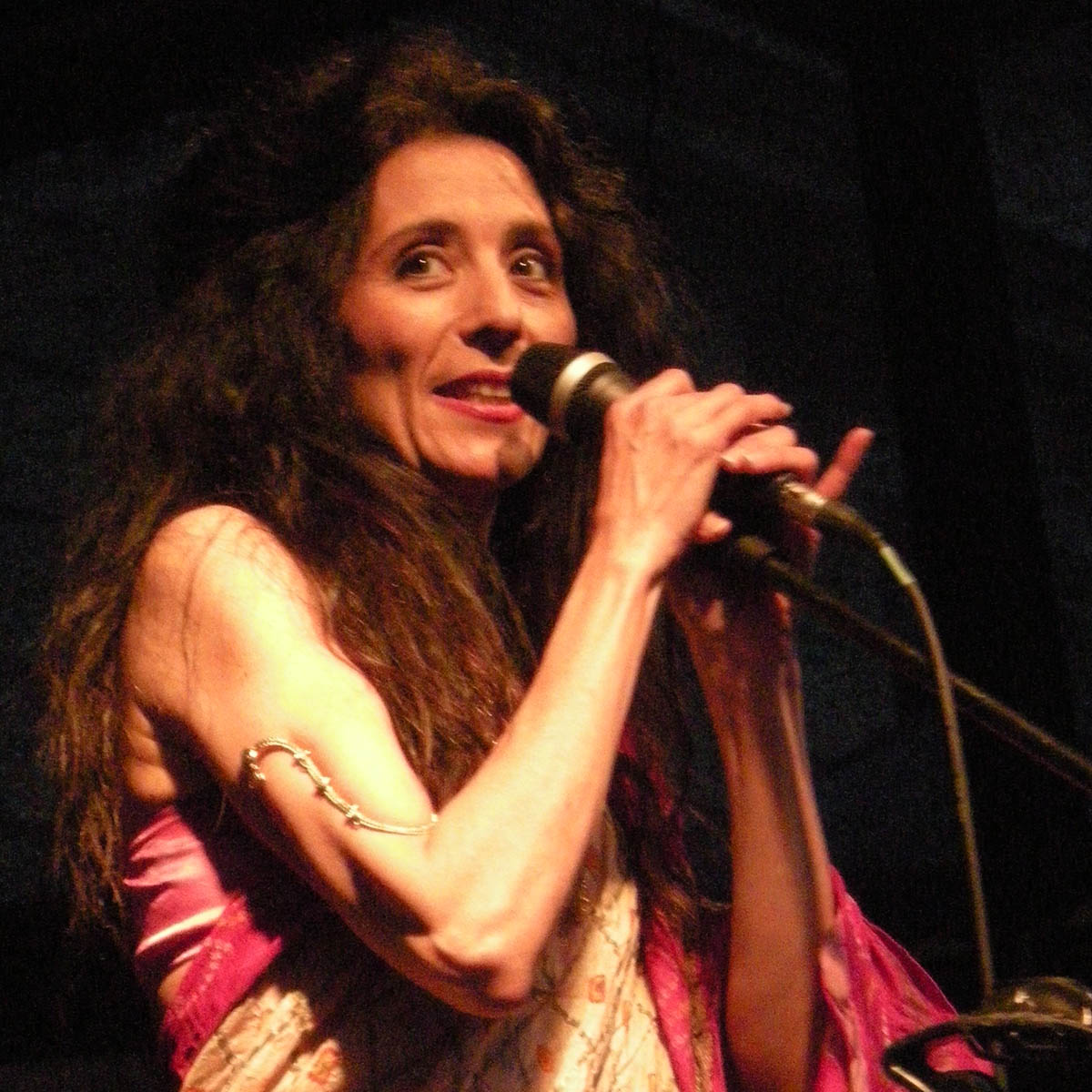 Singer, songwriter and actor Timna Brauer with husband 'Elias Meiri performing at Vienna's 25th annual "Stadtfest".